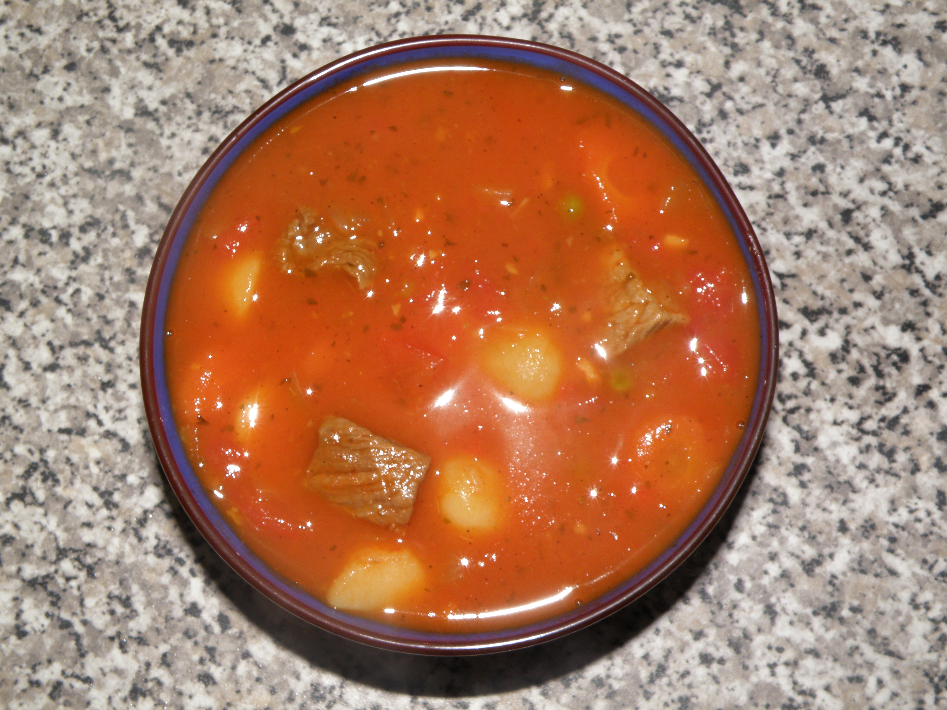 Croatian Goulash.